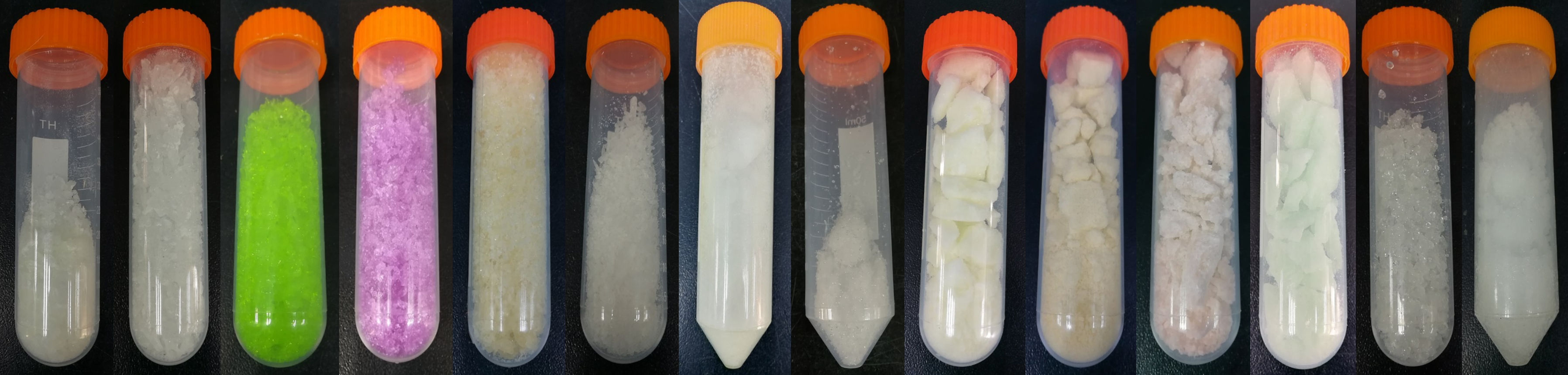 Samples of lanthanide nitrates hexahydrate, Ln(NO3)3.6H2O. From left to right: La, Ce, Pr, Nd, Sm, Eu, Gd, Tb, Dy, Ho, Er, Tm, Yb and Lu.